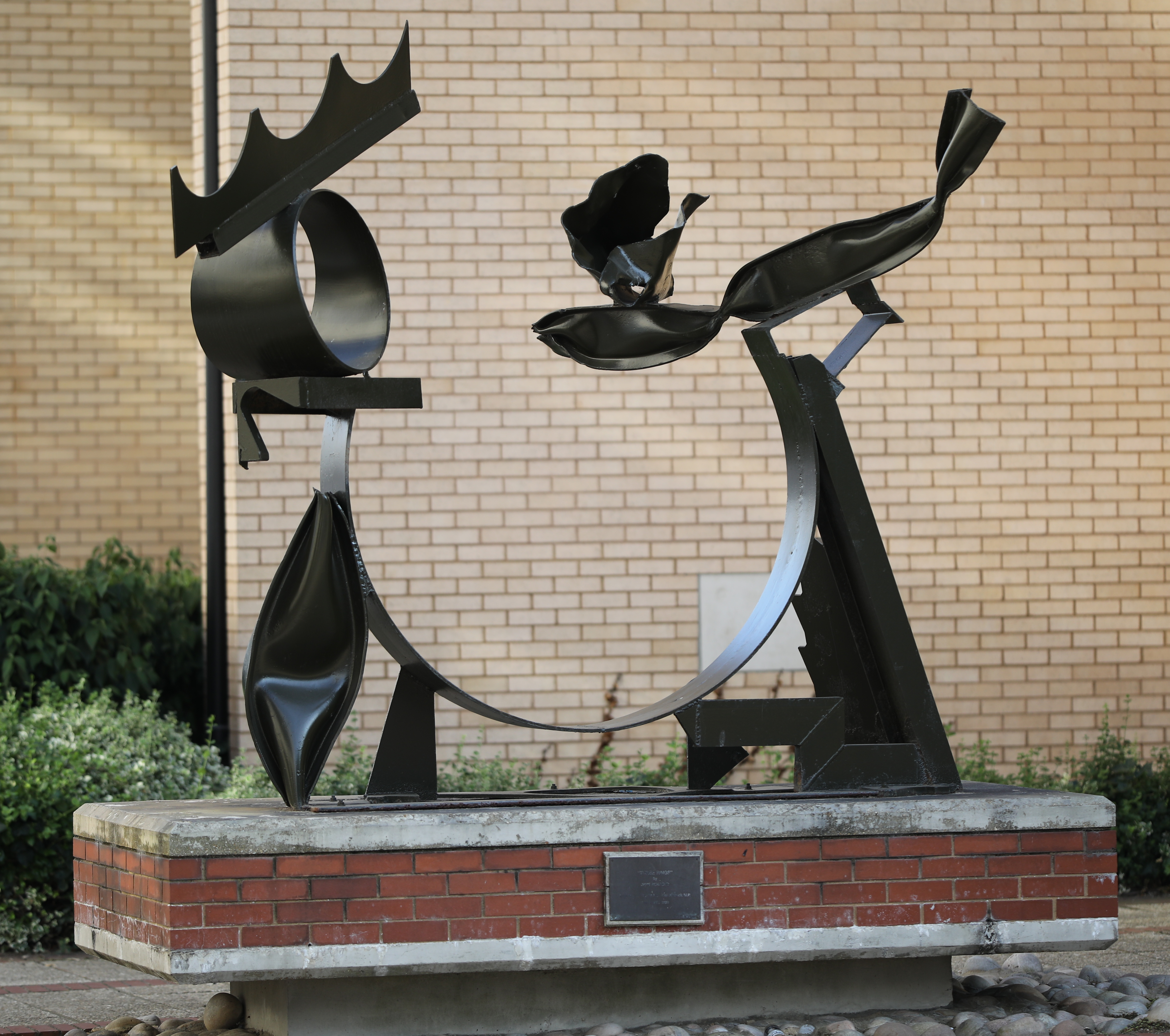 Photo of the Three rings sculpture by Jane Ackroyd in ocean village fairly recently painted